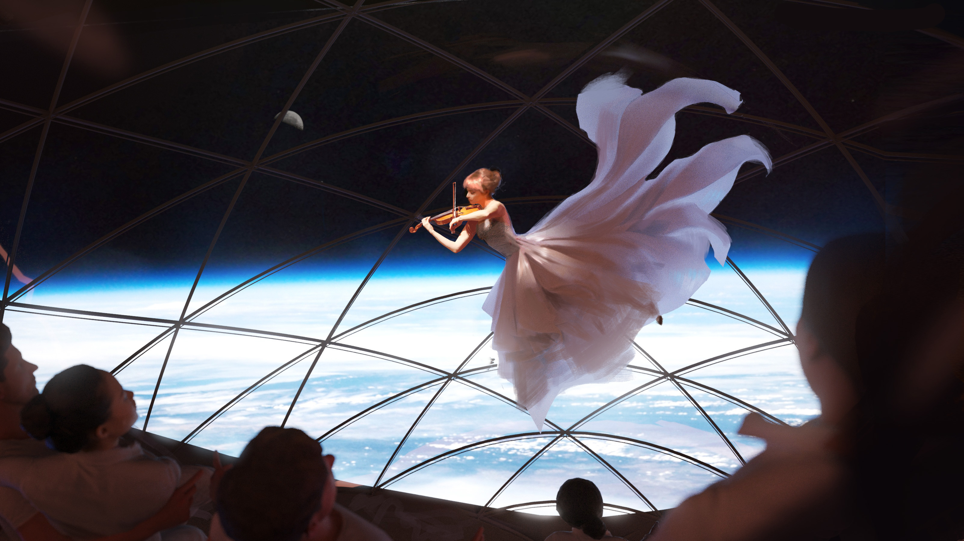 A performance inside the SpaceX Starship. This spaceship was known by the name "Interplanetary Spaceship" in the 2016 SpaceX design concept, but SpaceX continued to use the artistic render after they had modified their design, and renamed the spaceship to Starship in 2018.